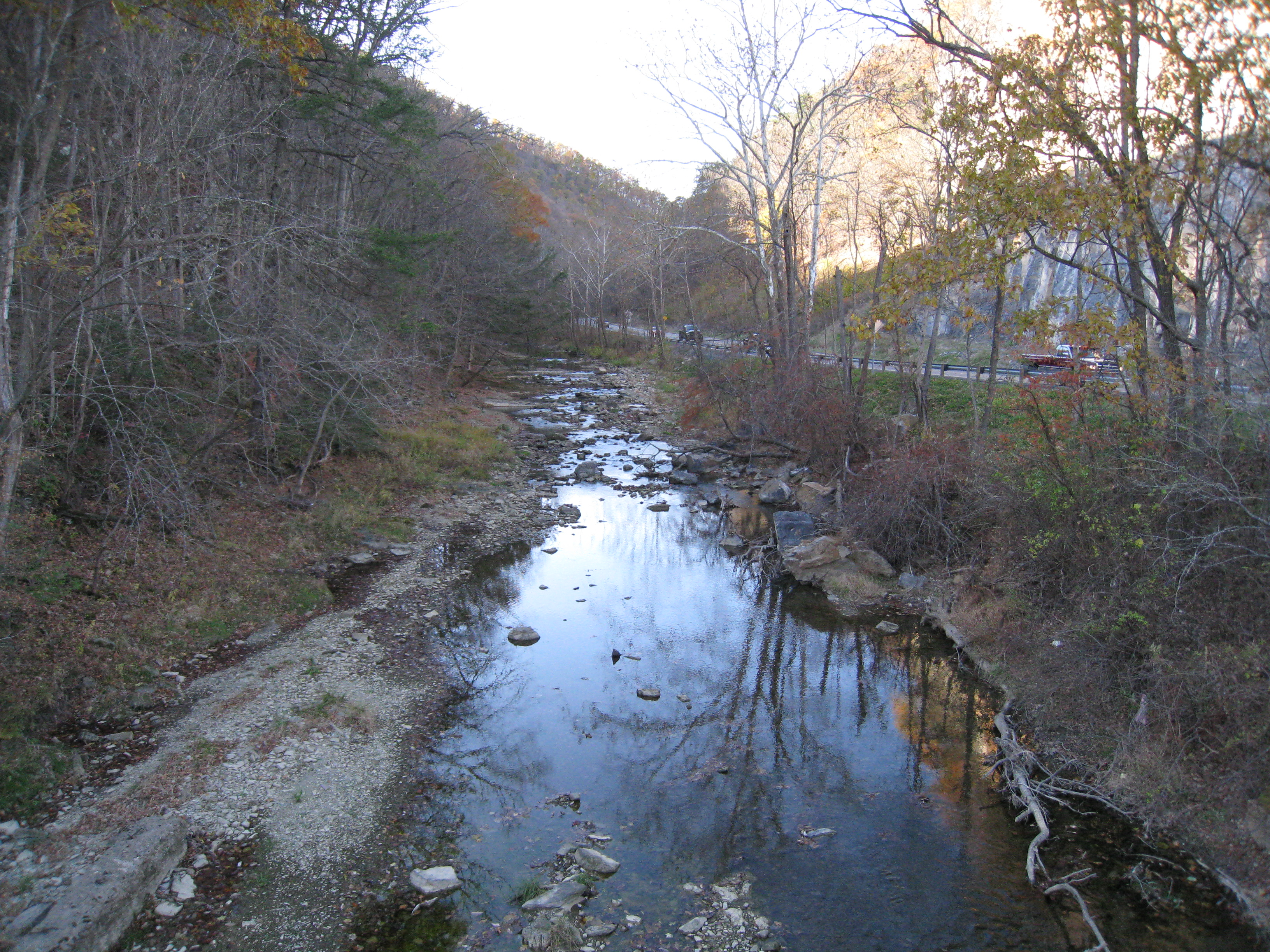 Mill Creek at Mechanicsburg Gap viewed from the Core Road (County Route 50/53) bridge near Romney, West Virginia, United States.